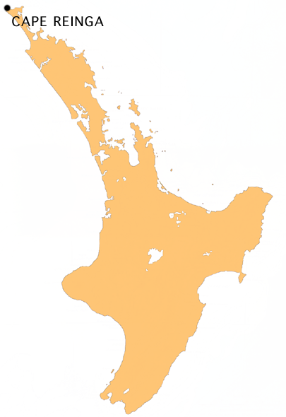 Location map of Cape Reinga, Far North, Northland, North Island, New Zealand